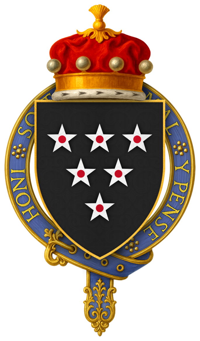 Sir William Bonville, 1st Baron Bonville, KG BURKE, Sir Bernard, The General Armory of England, Scotland, Ireland, and Wales; Comprising a Registry of Armorial Bearings from the Earliest to the Present Time, London: Harrison & Sons, 1884. “ Bonvile (Lord Bonvile. Summoned to Parliament, 1449) Sa. six mullets ar. piered gu. ” FOSTER, Joseph, Some Feudal Coats of Arms from Heraldic Rolls 1298-1418, London; & Oxford: James Parker & Co., 1902. “ Bonevile, Sir William, of Sponton, Yorks. - (H. vi. Roll) bore, sable six mullets argent, quarterly with gules, three lyonceux gold; Atkinson Roll. William, Lord Bonvile, K.G., bore the first coat with the mullets pierced gules; K. 402 of. 46 ”